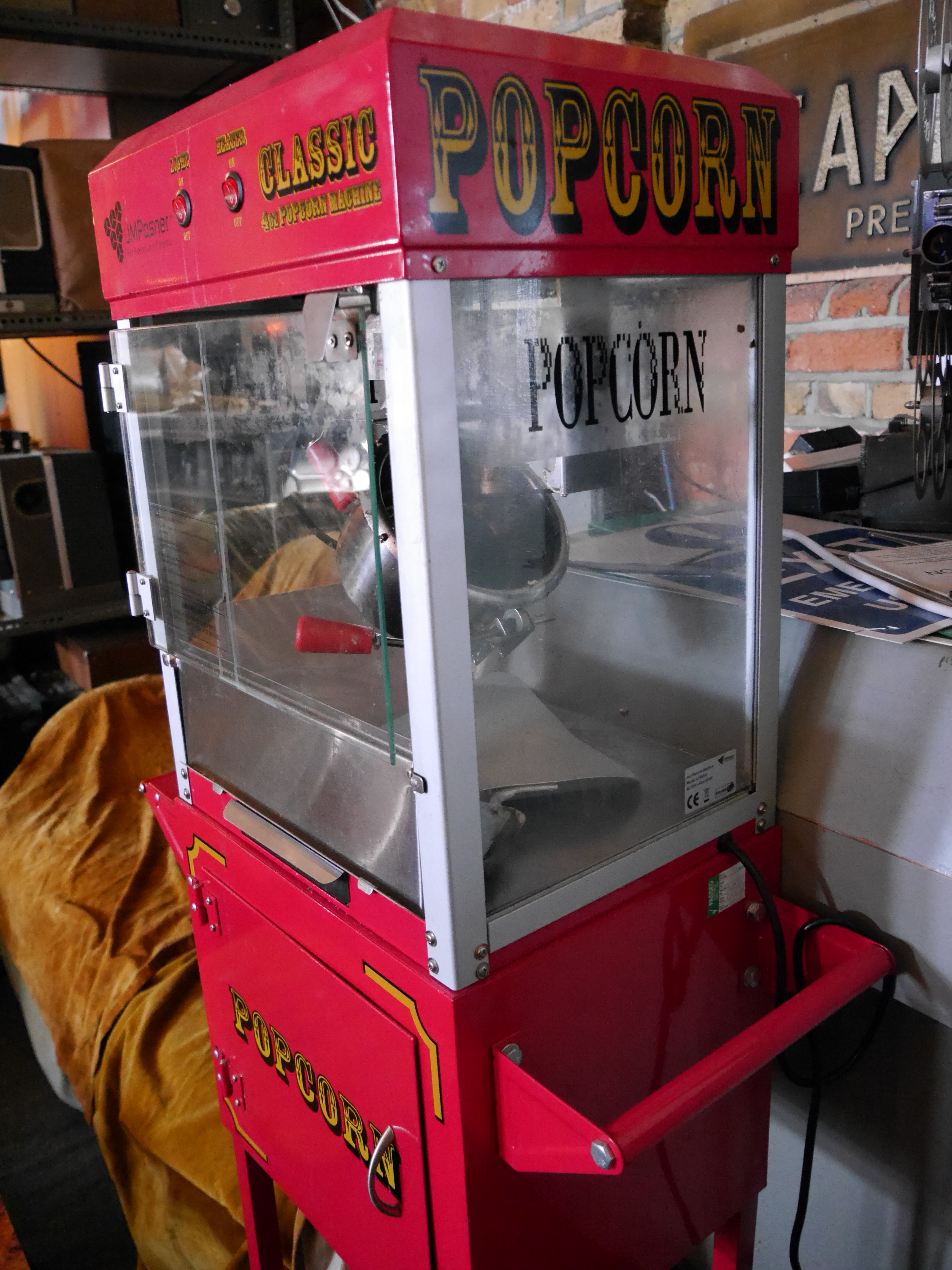 Cinema Museum, London object